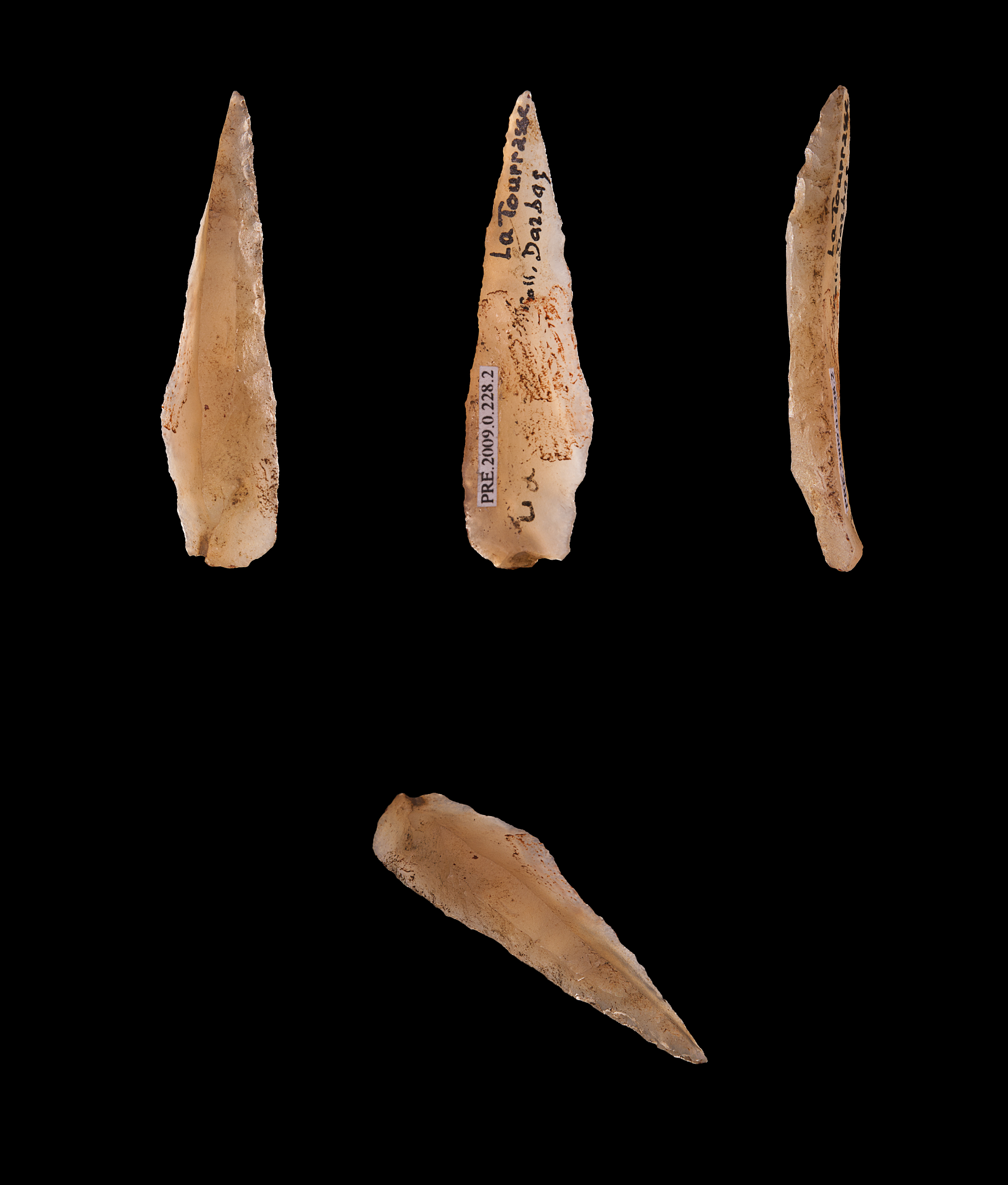 Azilian point - Different views of the same specimen